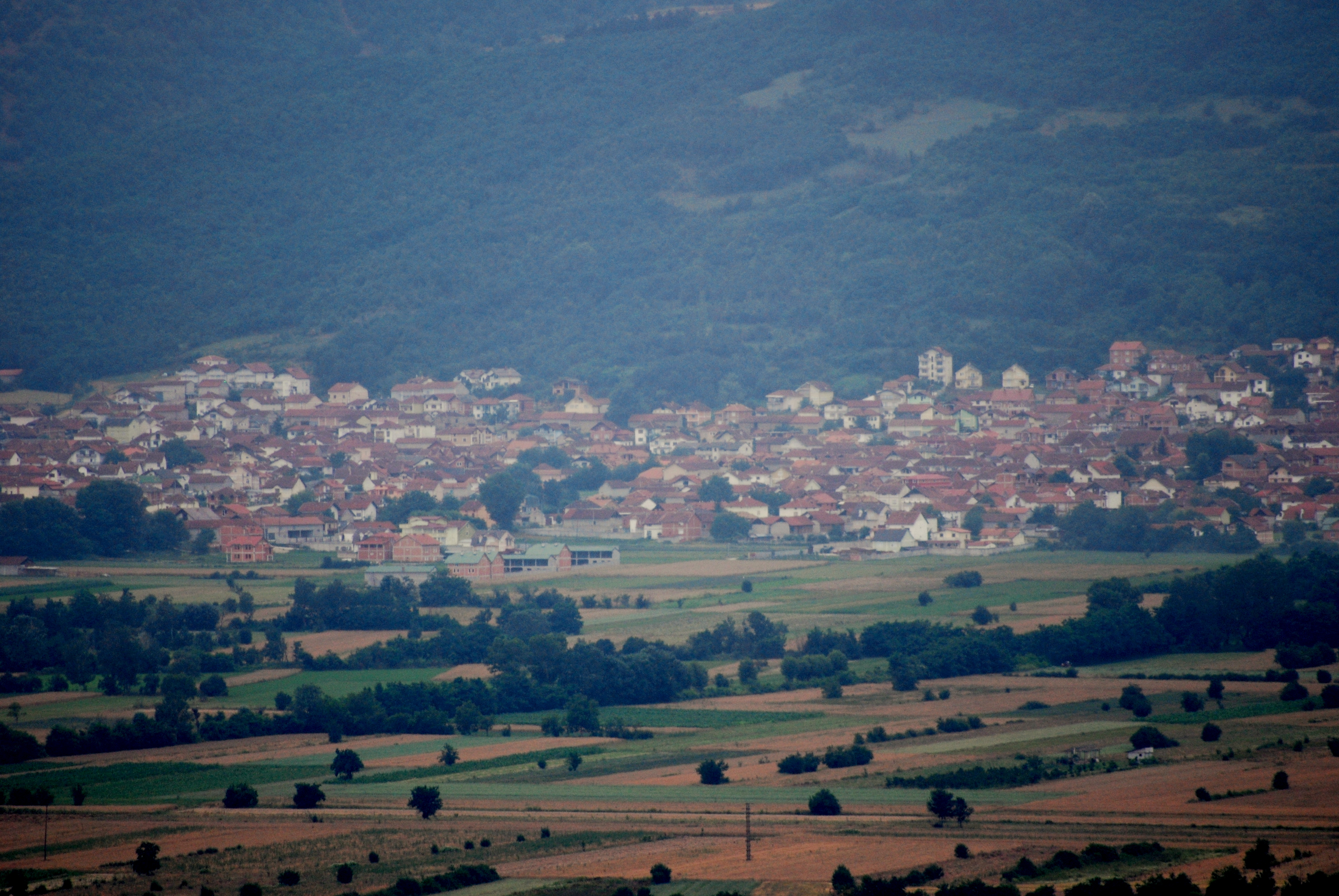 View on Pirok, Tetovo, Macedonia